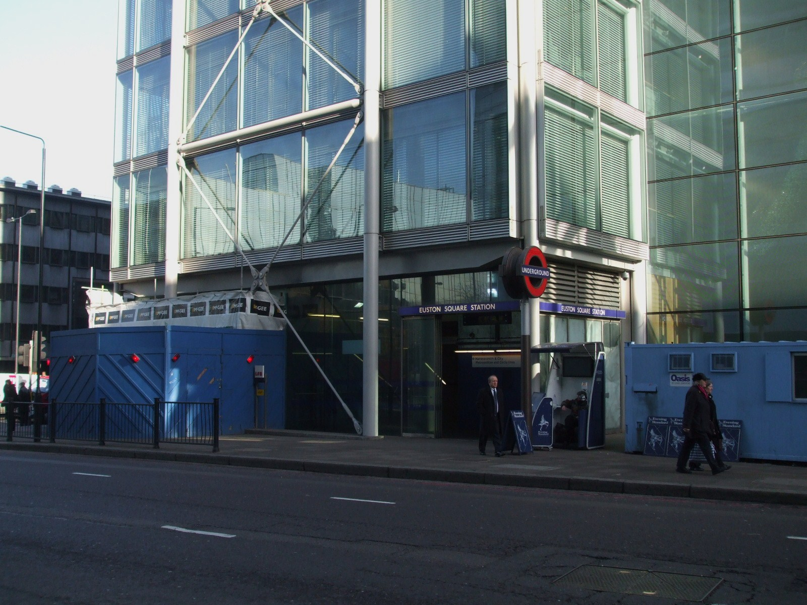 Euston Square tube station southern entrance on Gower Street, newly reconstructed and adjoining the western end of University College